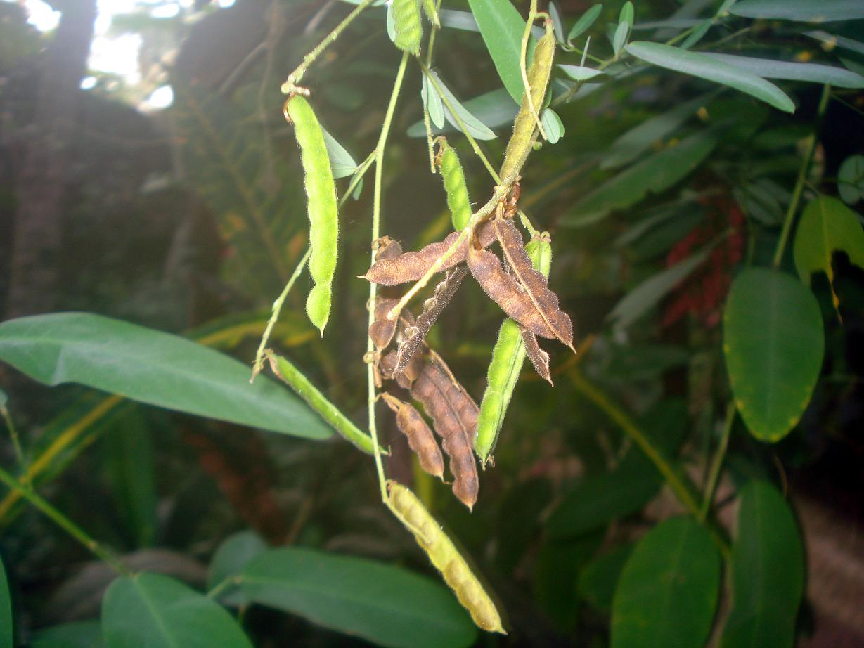 Name : Desmodium gyrans Family : Fabaceae